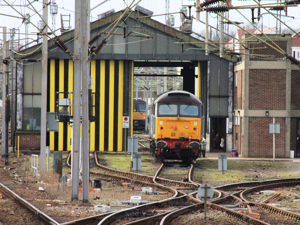 47802 waits outside the depot at Colchester. It is waiting for the next 'Thunderbird' call out to deal with any failed trains on the Great Eastern Main Line.